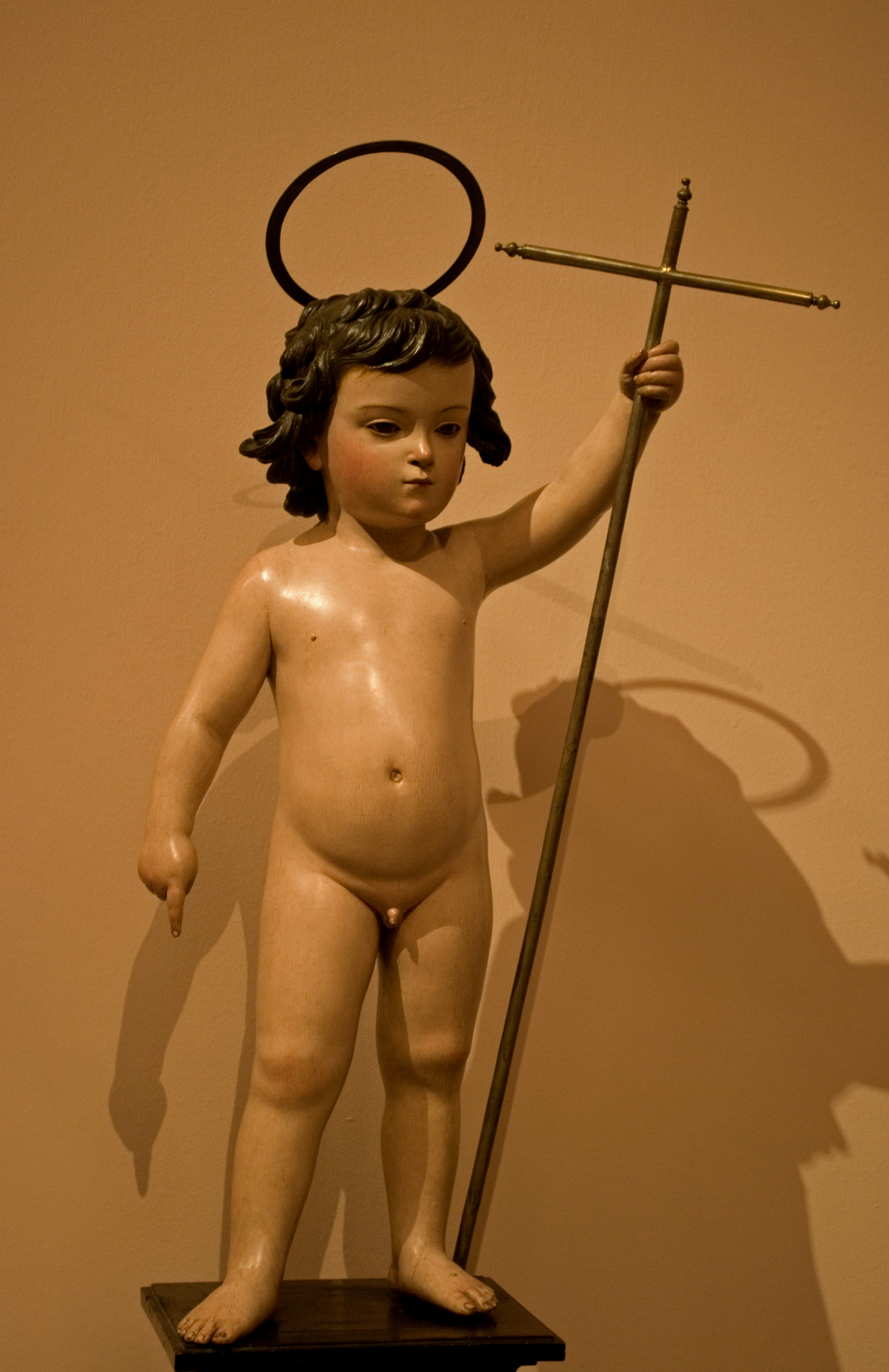 Statues of John the Baptist, (1674), by Pedro de Mena, Fine Arts Museum of Seville